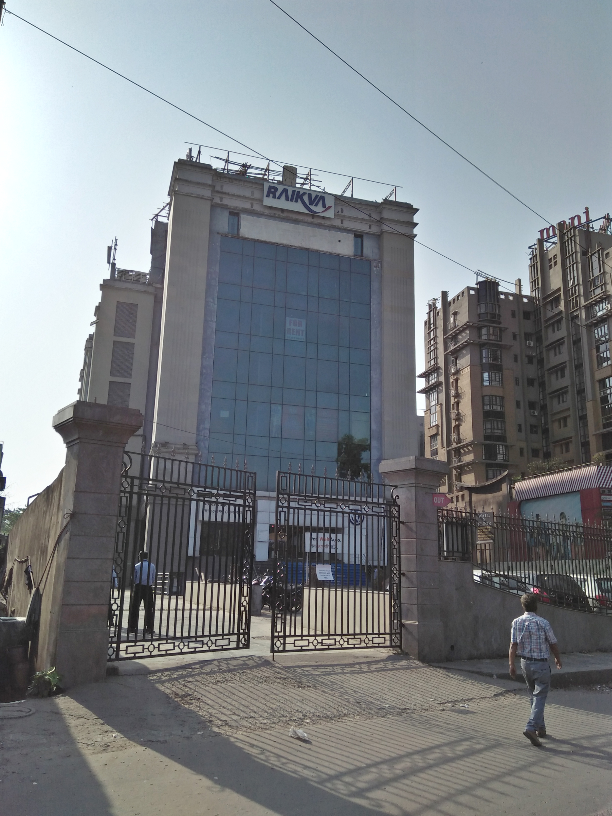 Photographed in Kolkata.